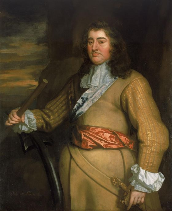 Flagmen of Lowestoft: George Monck, 1st Duke of Albemarle